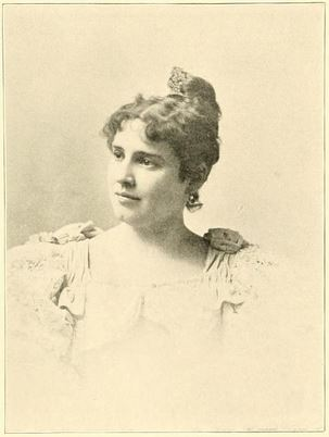 Mrs Howard Mutchler